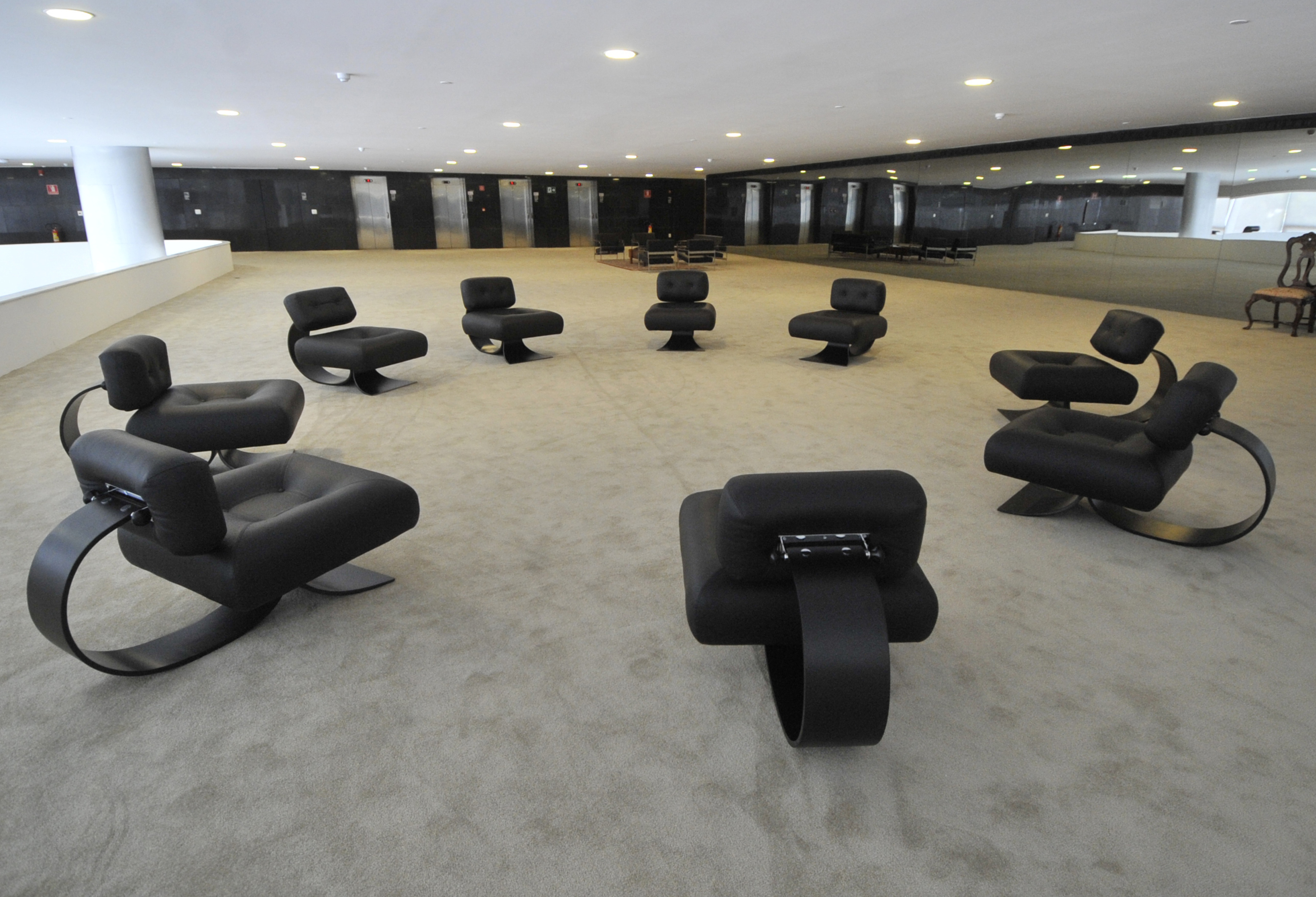 Reception area in the Entrance Hall of the Palácio do Planalto, Brasília, Brazil.